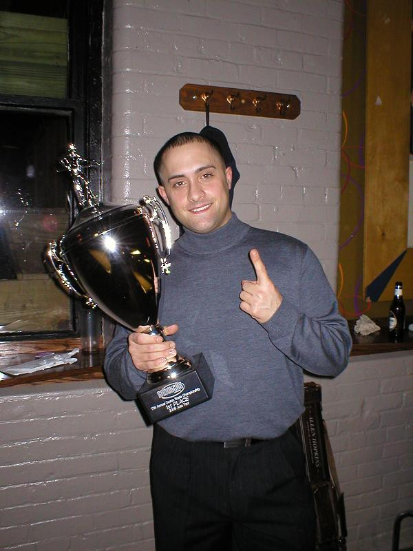 This is my personal photo that I took with my camera and may be released to the public domain.